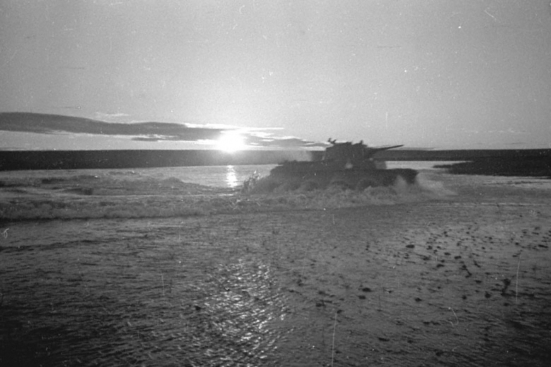 Soviet tanks cross Khalkhyn Gol river